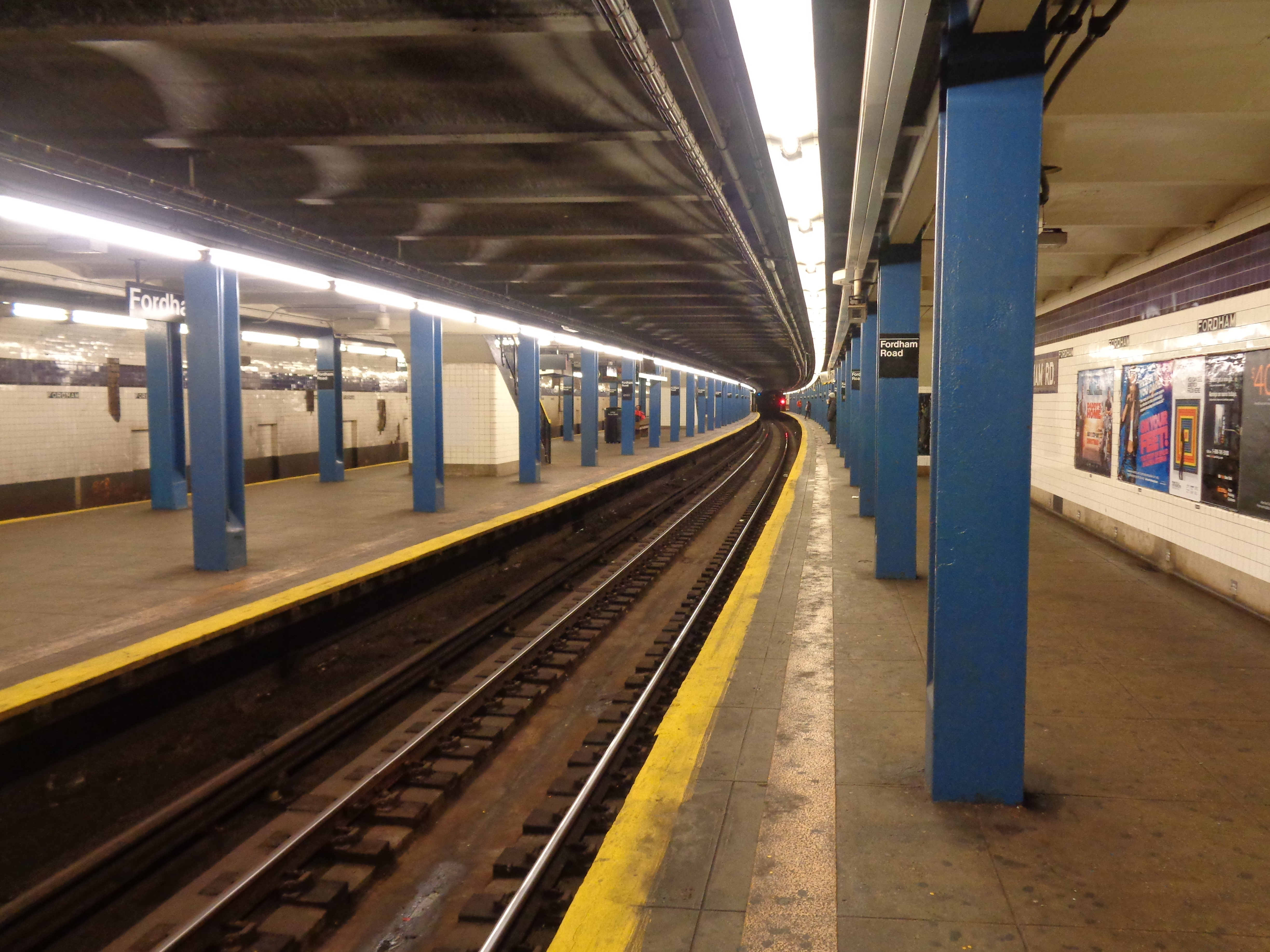 Looking down the center express track on the southbound platform of the Fordham Road station in the Bronx.